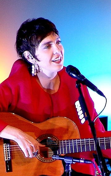 Brazilian singer and composer Adriana Calcanhotto